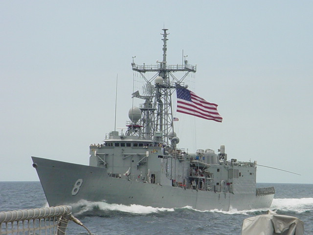 The U.S. Navy guided missile frigate USS McInerney (FFG-8) underway.